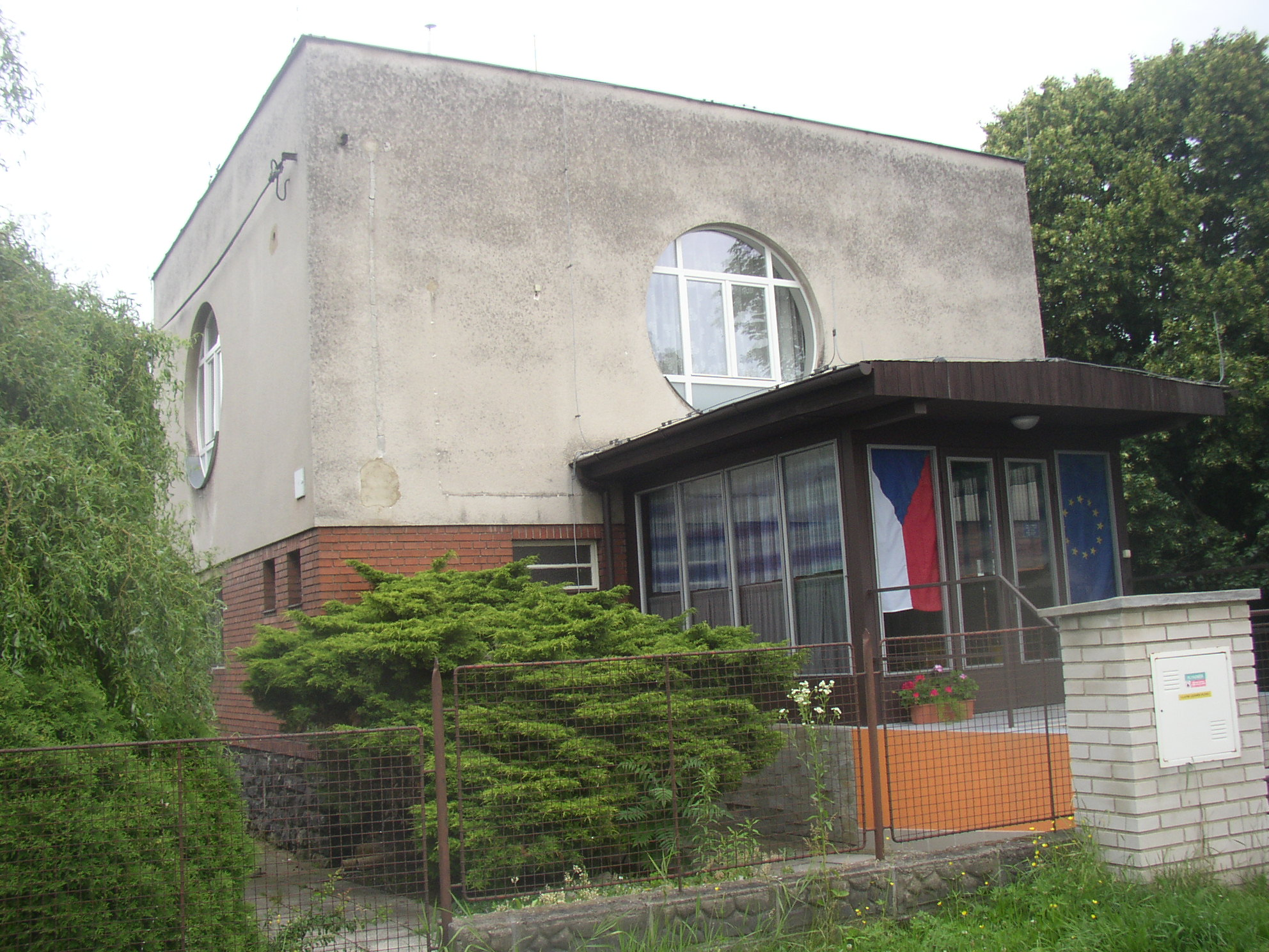 Velvary, Kladno District, Czech Republic. Former synagogue (nowadays a school), 527 Karel Krohn Str. The building, designed in style of Functionalism by František Albert Libra, was completed in 1931.